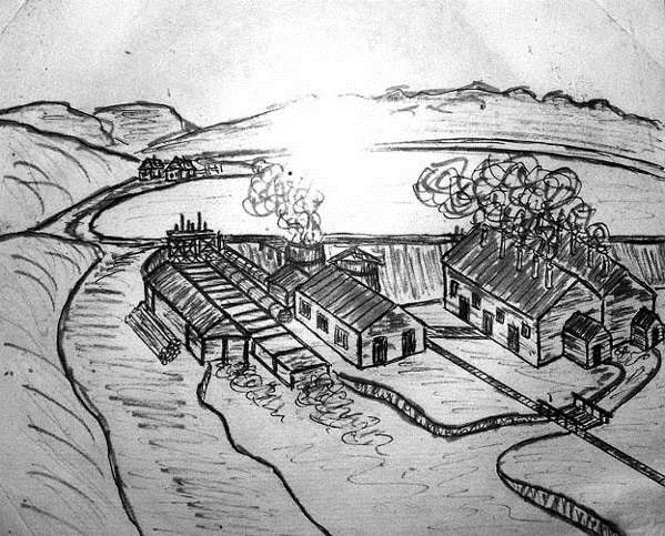 На картинке изображен завод.